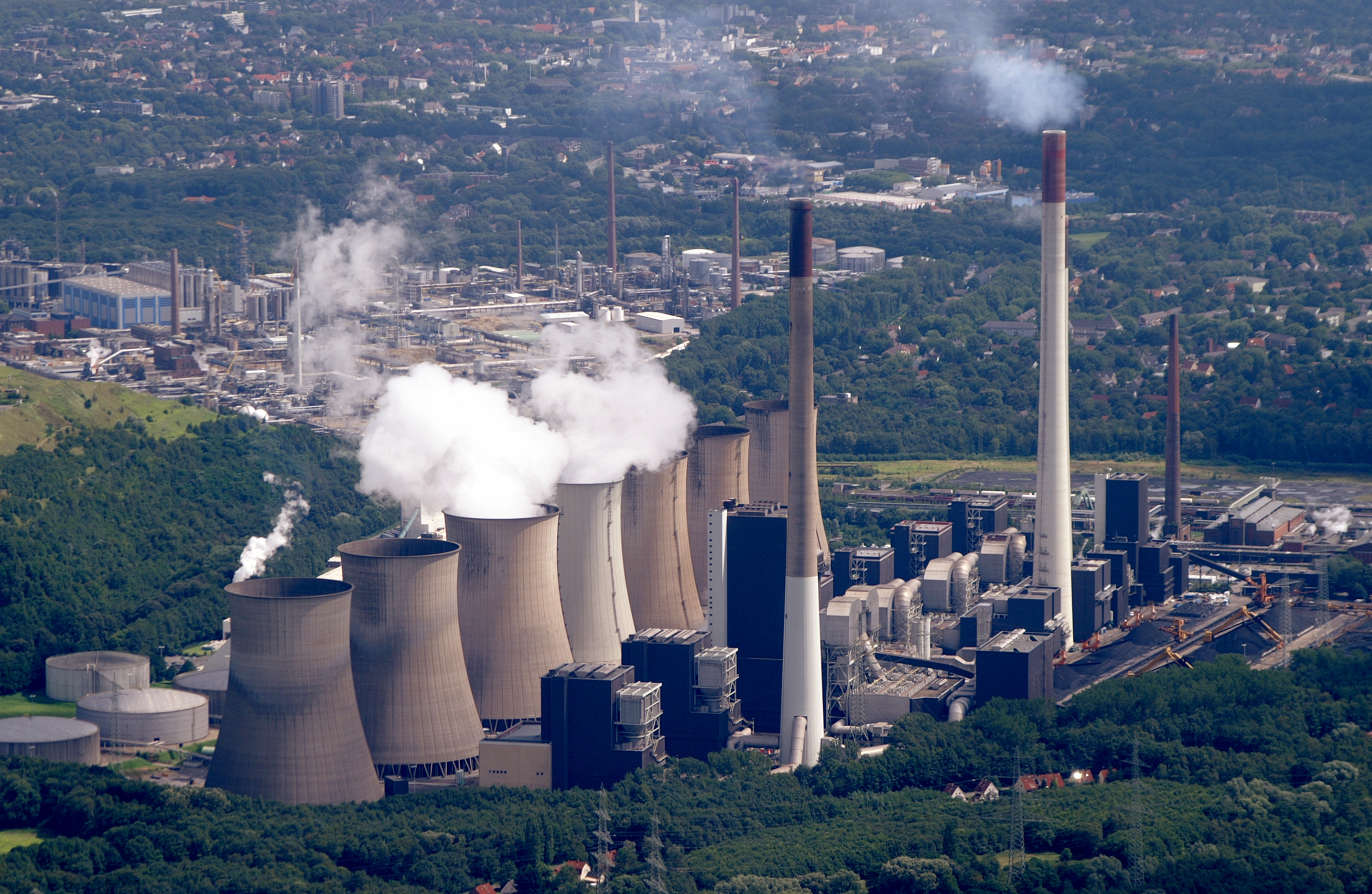 Kohlekraftwerk Scholven, a fossil fuel power plant in Germany